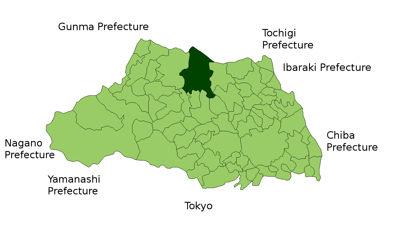 Location Map of Kumagaya in Saitama Prefecture, Japan